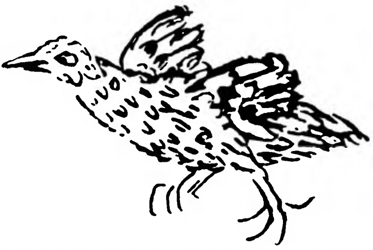 Drawing of the Ascension crake by Peter Mundy in 1656 on his visit to Ascension Island. This appears to be the original version of the drawing as it has sourcing. The one uploaded earlier is clearly distinct in some details, but has the same overall pose, and appears to be derived from this one.